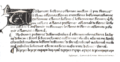 Occitan pig latin poem by Cerverí de Girona, a 13th-century troubadour.